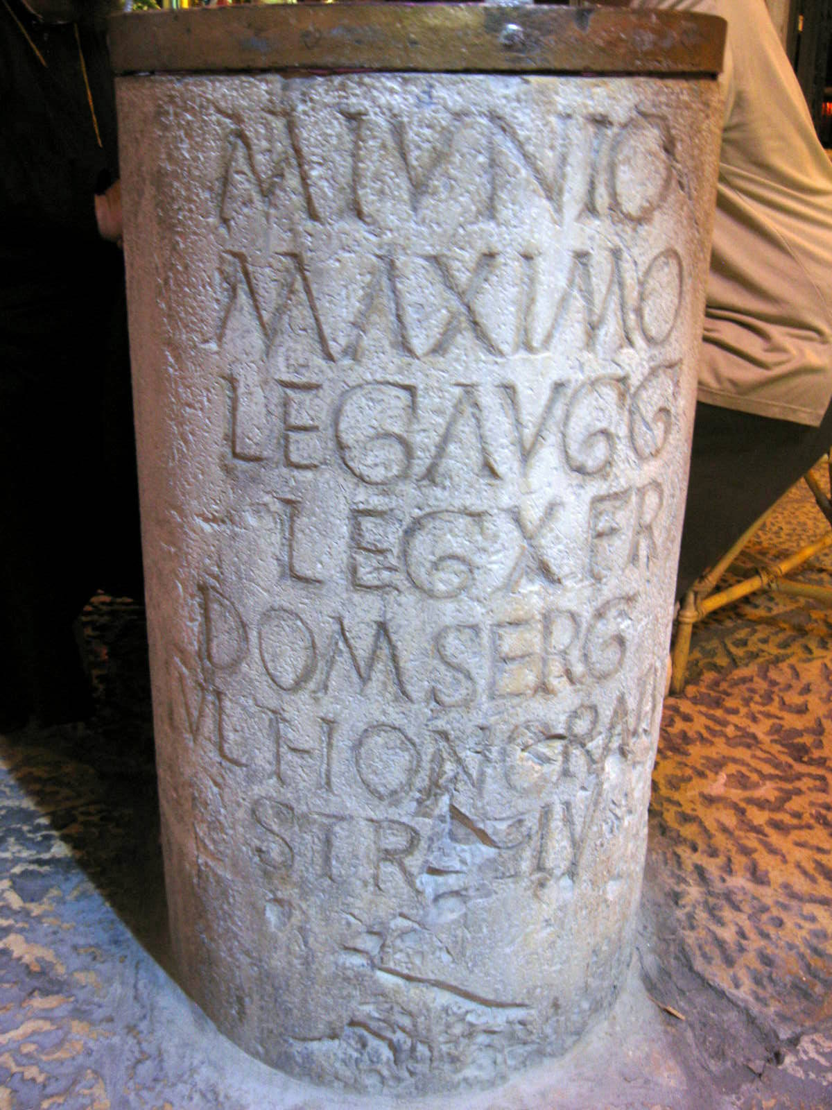 Old Jerusalem, 10th Legion Column, Roman pillar in arcade of New Imperial Hotel. M(arco) Iunio Maximo leg(ato) Aug(ustorum) Leg(ionis) X Fr(etensis) Dom(itius) Serg(ius) Jul (ius ) Honoratus. Str (atores) eiu{s} .